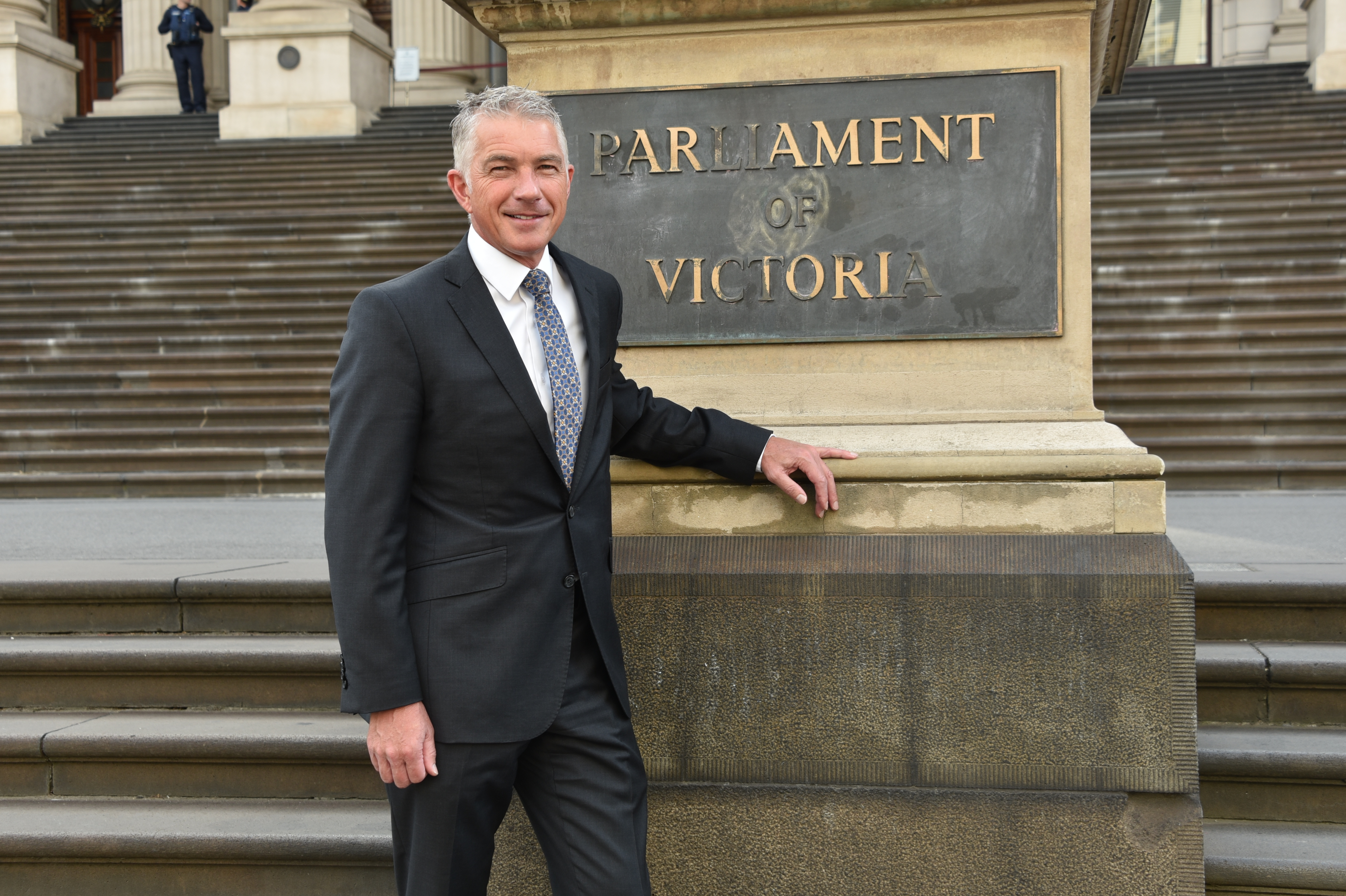 Brian Paynter at Parliament House